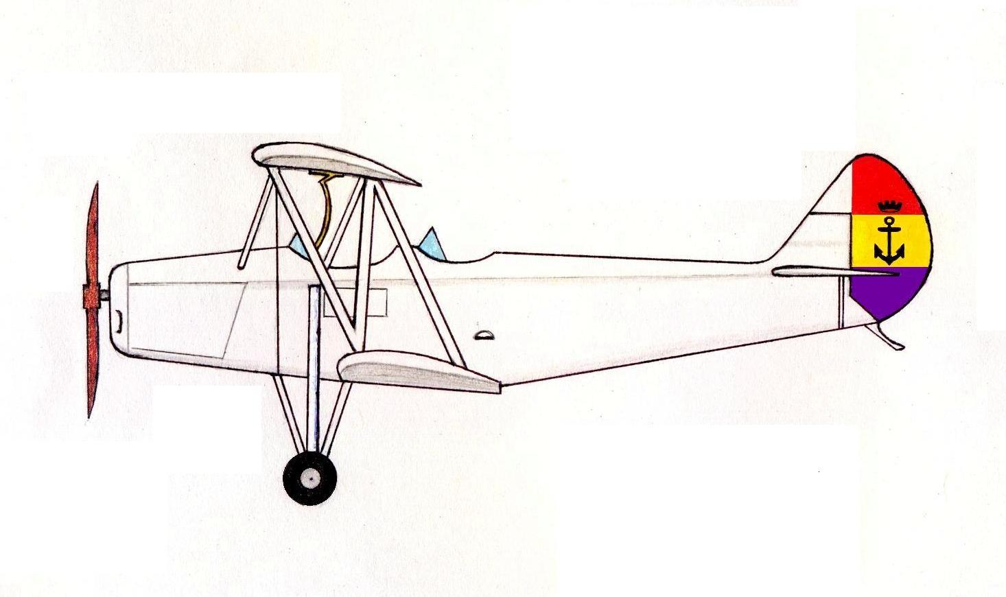 Hispano-Suiza E-34 trainer of the Aeronautica Naval